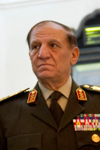 Lt. Gen. Sami Hafez Enan, chief of staff of the Egyptian armed forces, at the Egyptian Ministry of Defense in Cairo, Egypt, Feb. 11, 2012. DoD photo by D. Myles Cullen